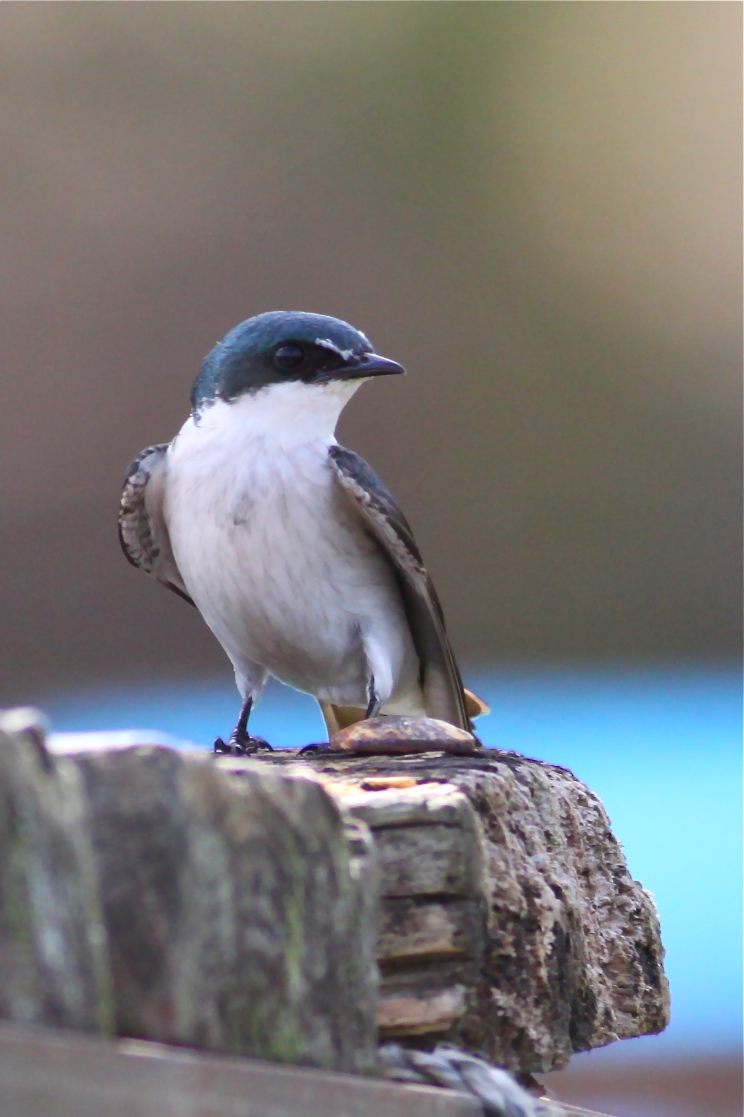 A Mangrove Swallow in Lamanai, Belize.